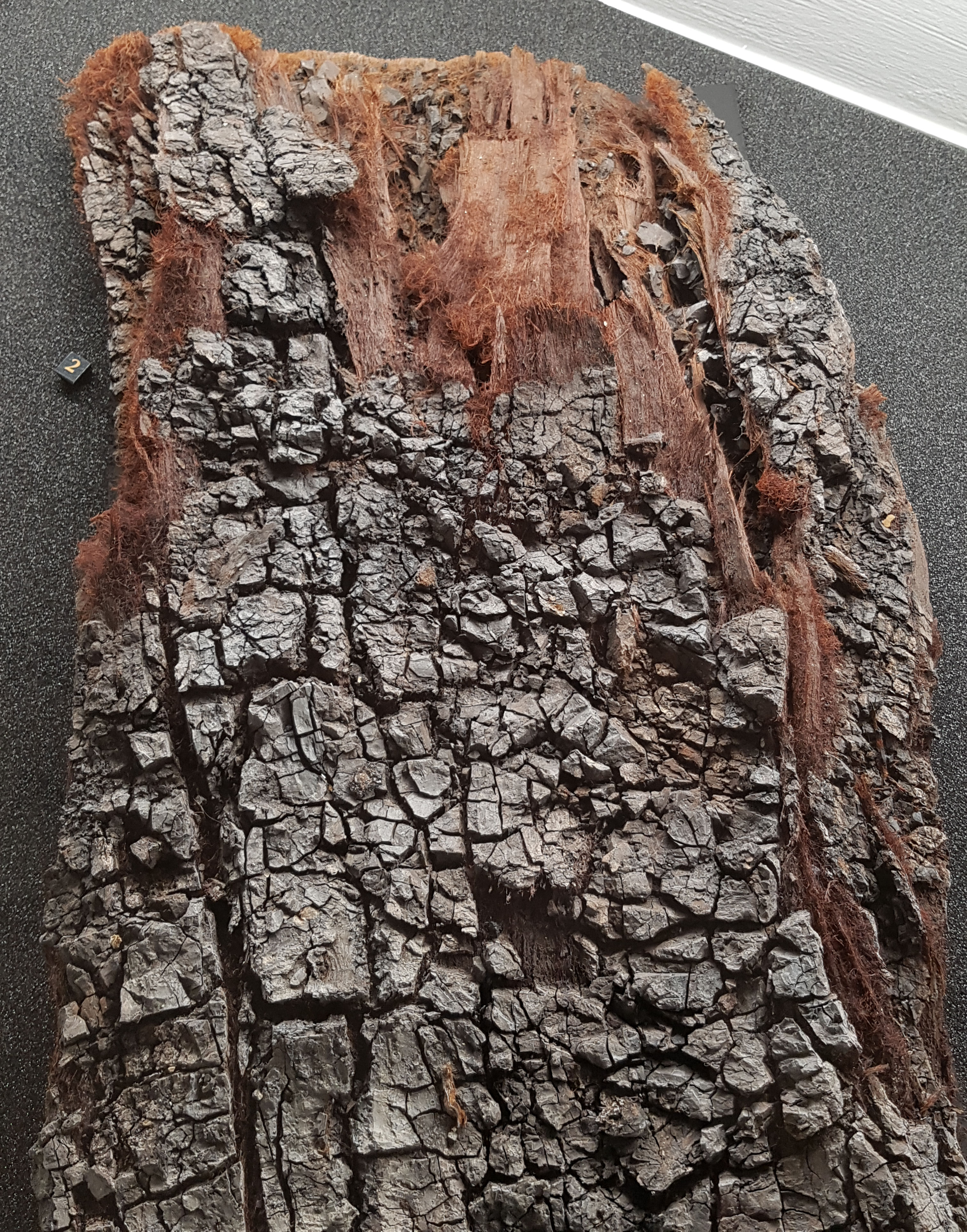 fossilised latex tubes, called "monkey hair", from the Geiseltal, Germany, Middle Eocene; took the picture in the Geiseltalmuseum, Halle (Saxony-Anhalt)